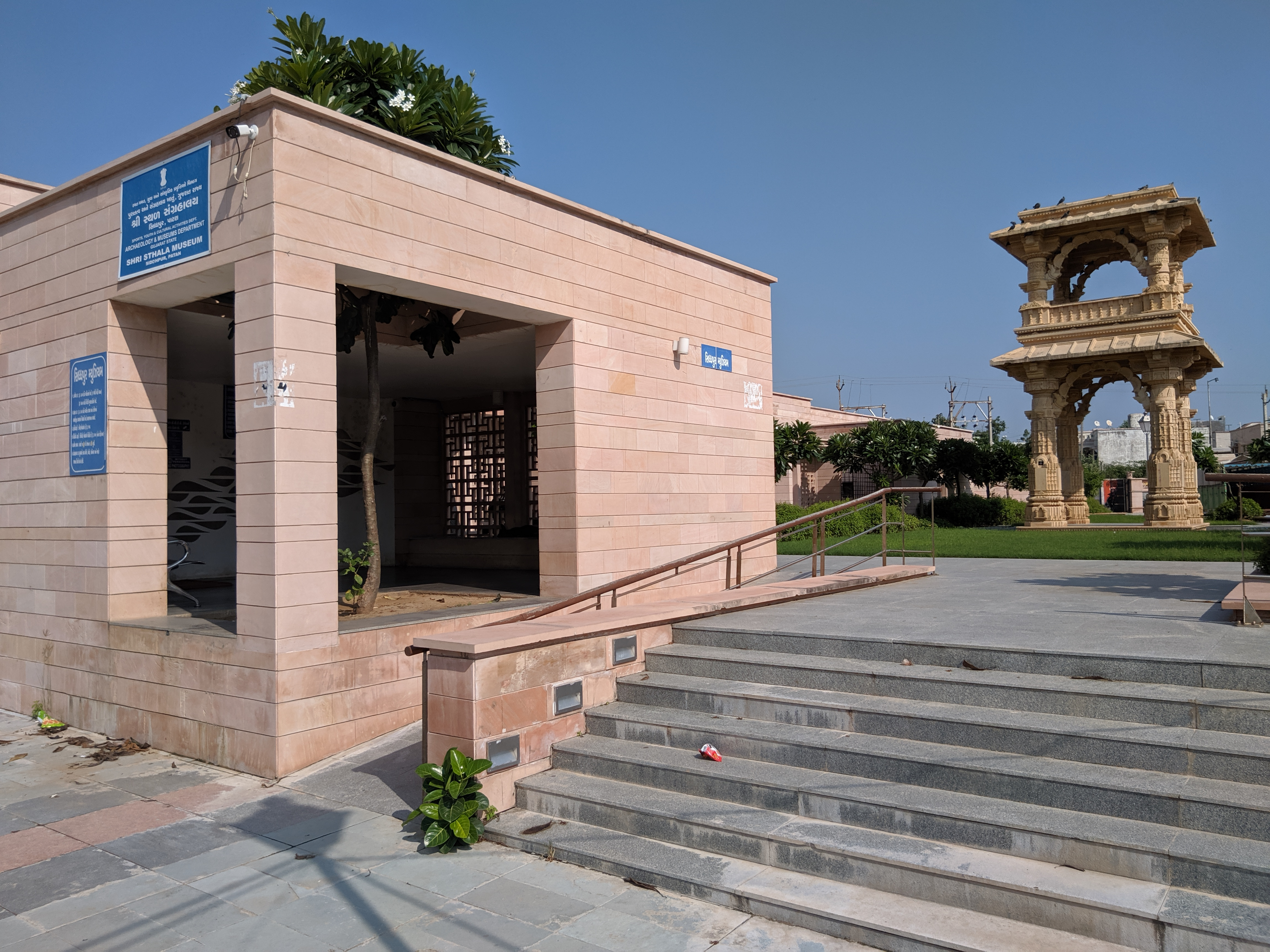 Shristhal Sangrahalay (Siddhpur Museum) in Siddhpur town in Gujarat state of India.